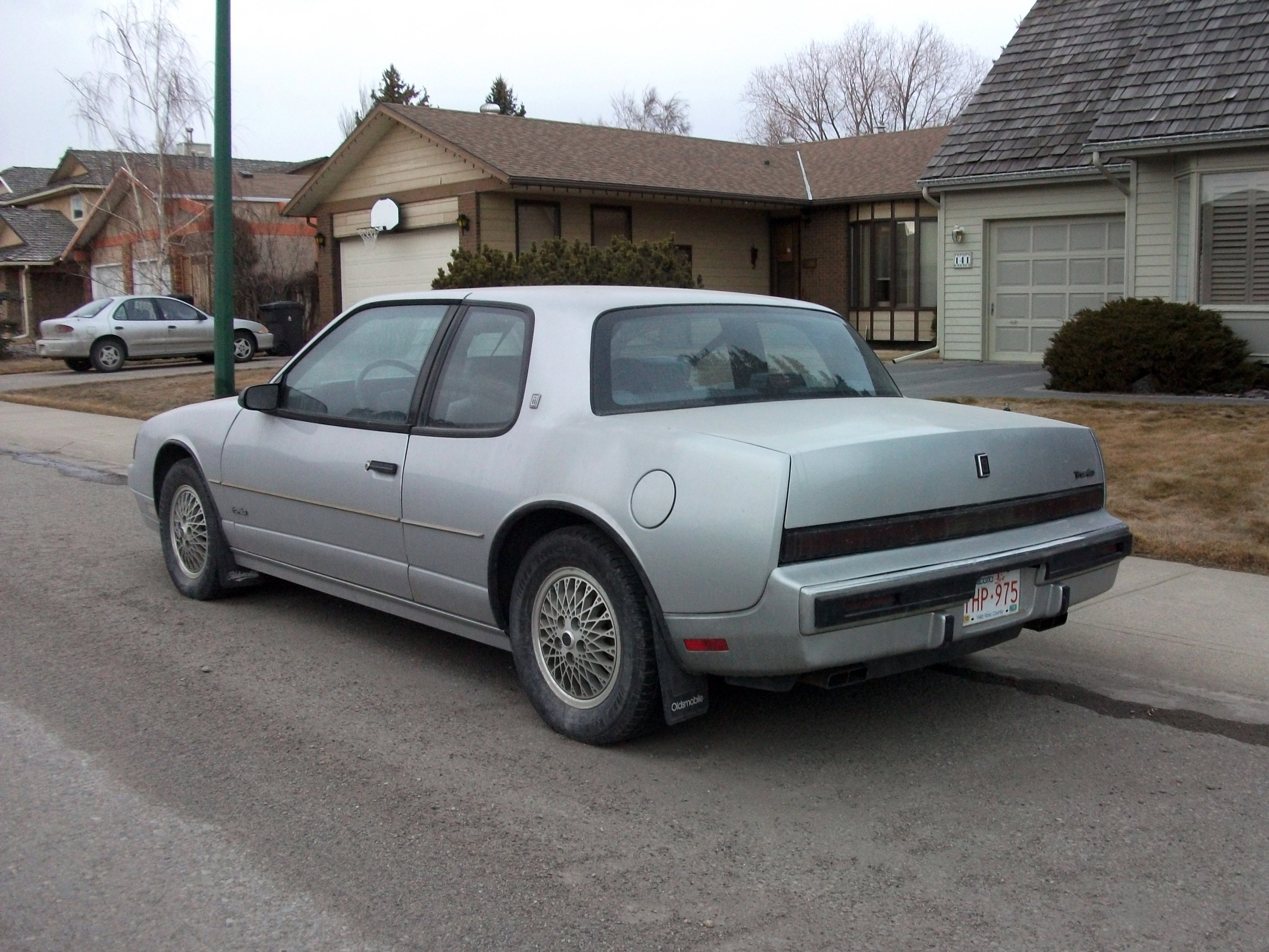 Early style Oldsmobile Troféo which is was the sportier model on the front wheel drive Toronado. It had the FE3 suspension package and 3.8L V6 engine.